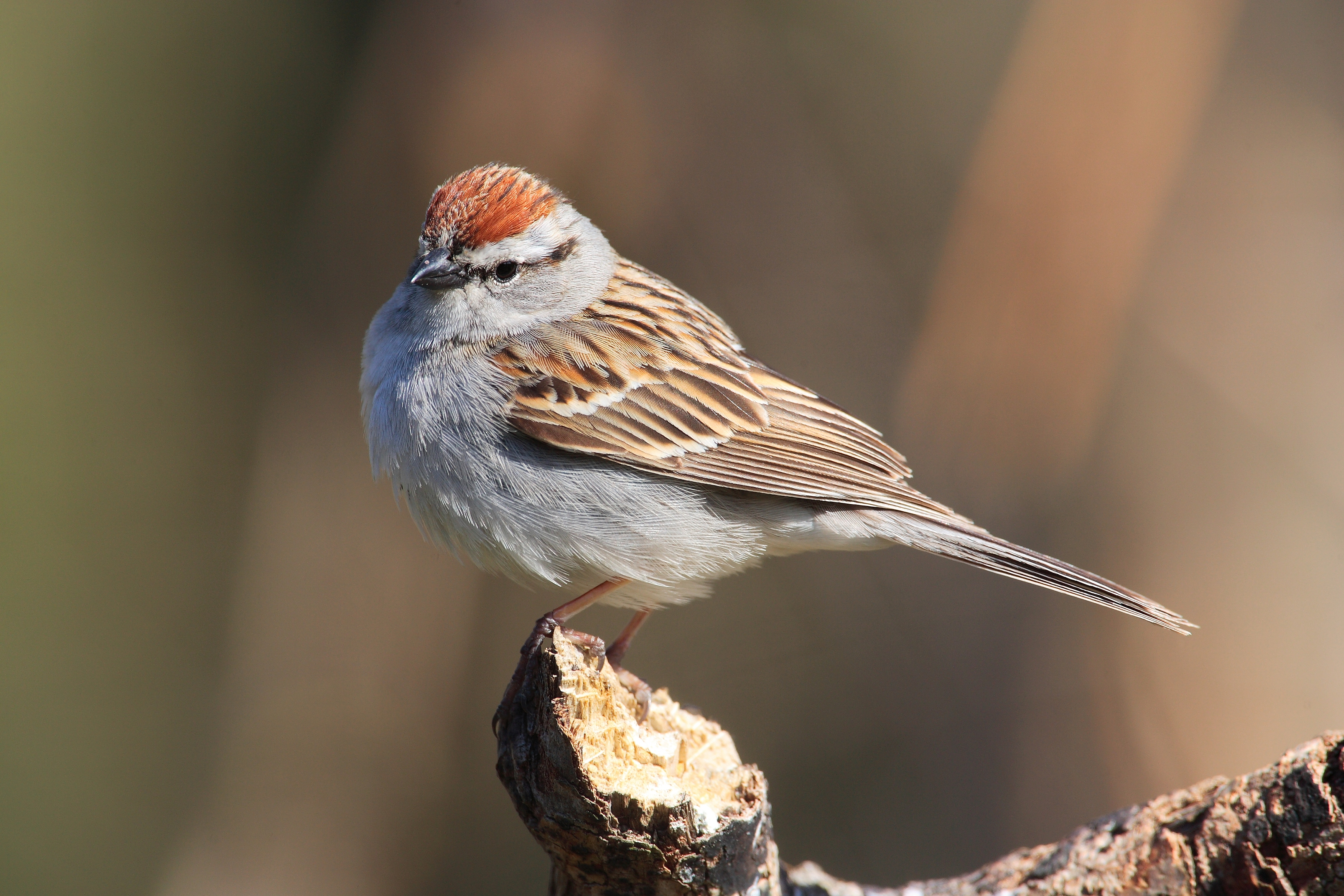 A Chipping Sparrow (Spizella passerina) at the feeders, behind the visitor centre, Rondeau Provincial Park, Ontario, Canada.